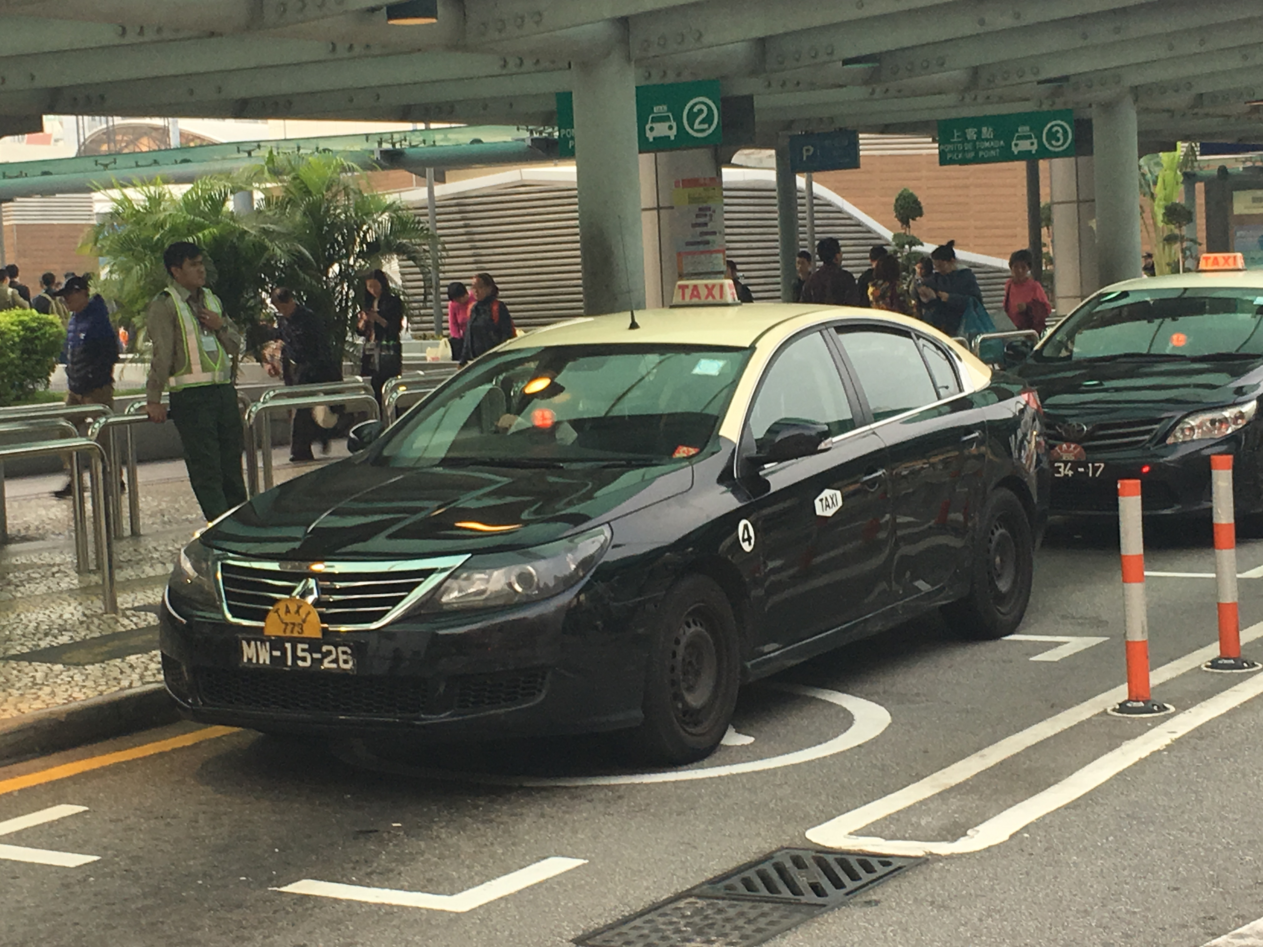 中文（香港）: This photo is taken in Border Gate.